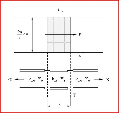 Fig.2 microwave